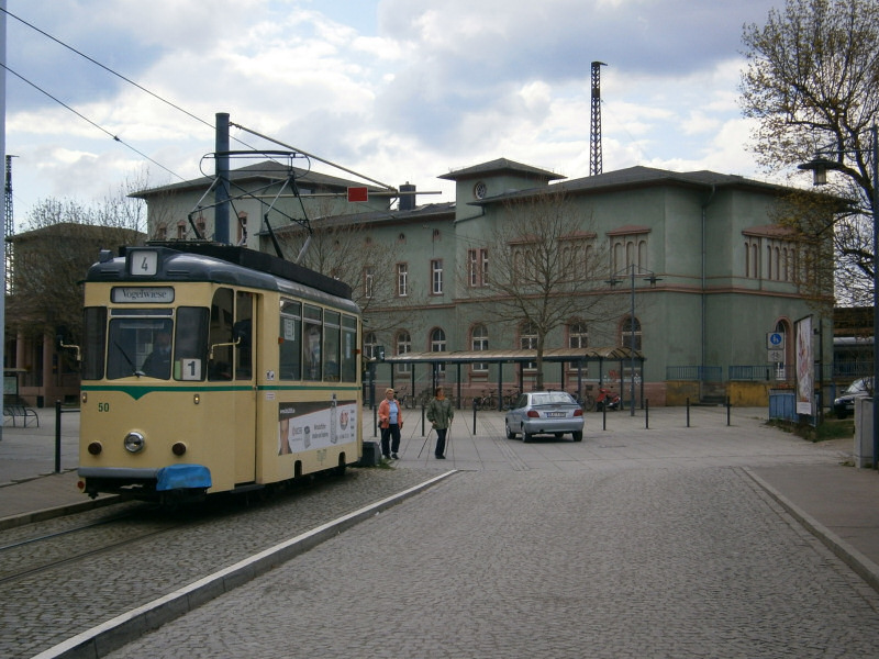 street car and rail station, Naumburg (Saale)